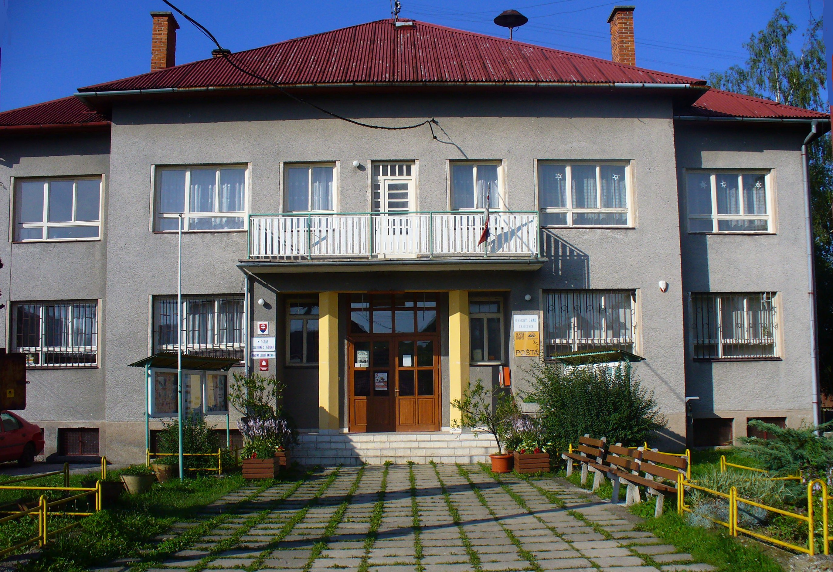 Dražkovce (Slovakia) - town hall